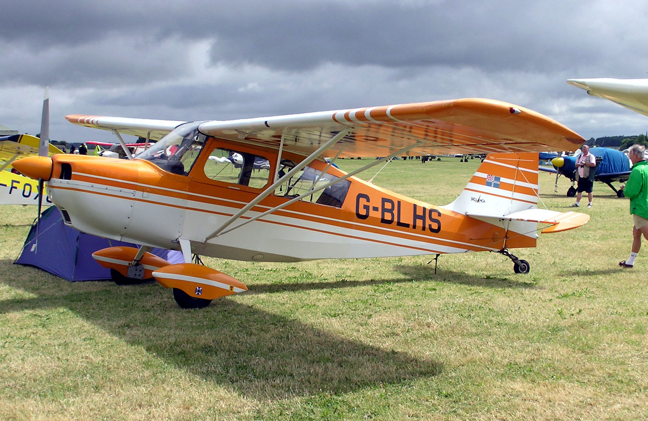 Bellanca 7ECA Citabria (G-BLHS) at Kemble Airfield, Gloucestershire, England. Built 1980. Photographed by Adrian Pingstone in July 2005 and released to the public domain.